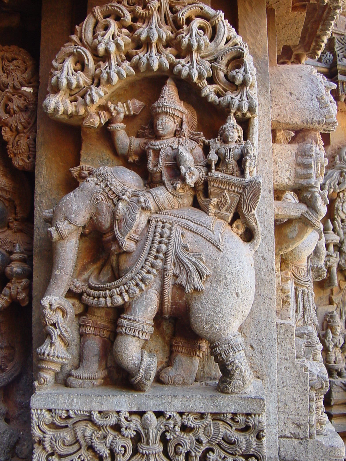 Indra. Keshava Temple, Somnathpur Indra, the king of the gods, rides with his consort Shachi on the royal elephant, and holds a vajra (thunderbolt) aloft in his right hand. The elephant is probably caparisoned like the real elephants of the time; its tusks are filed, as was often done to prevent injury to the animals' riders and keepers.